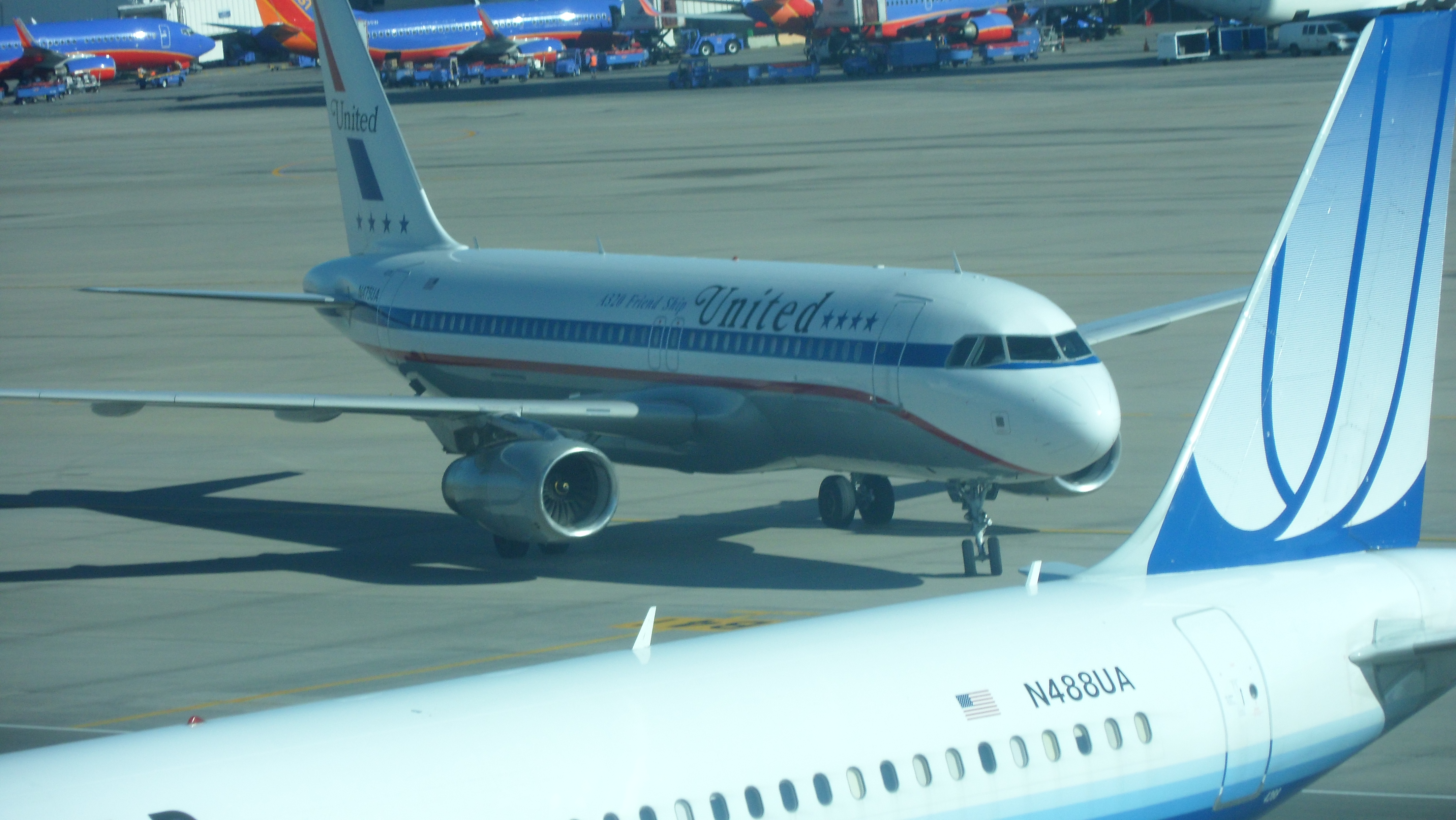 United Airlines aircraft N475UA, an Airbus A320 painted in the 1970s Stars and Bars livery, taxiing at Denver International Airport